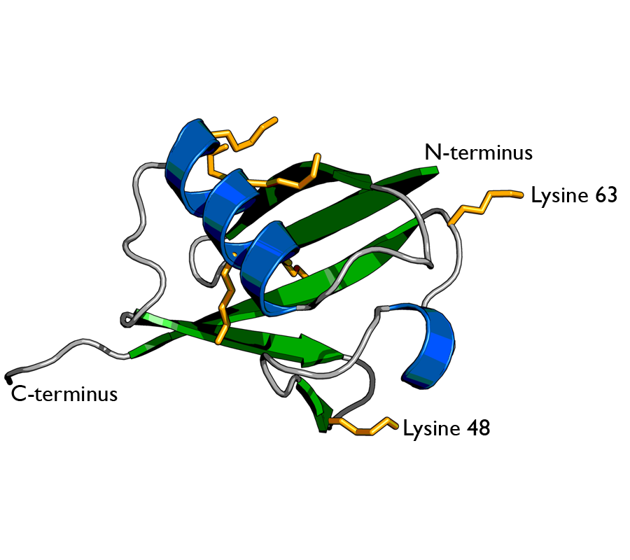 Cartoon representation of ubiquitin protein, highlighting the secondary structure. α-helices are coloured in blue and β-strands in green. The sidechains of the 7 lysine residues are indicated by orange sticks. The two best-characterised attachment points for further ubiquitin molecules in polyubiquitin chain formation (lysines 48 & 63) are labelled. Image was created using PyMOL from PDB id 1ubi.